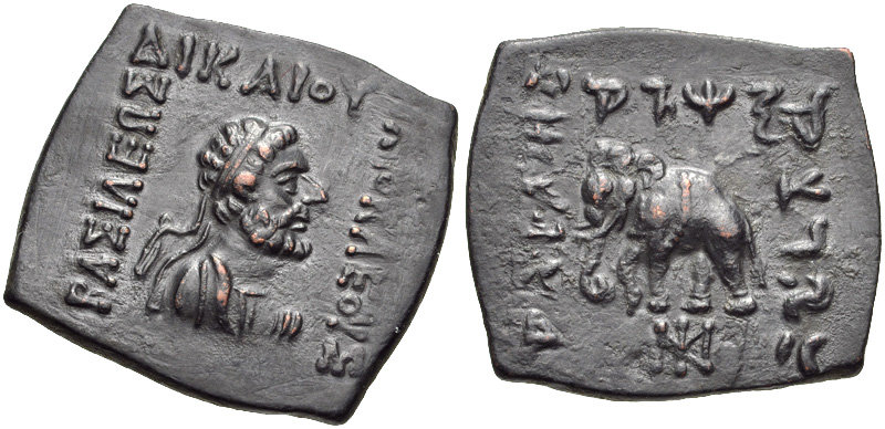 Coin of the Indo-Greek King Heliocles II